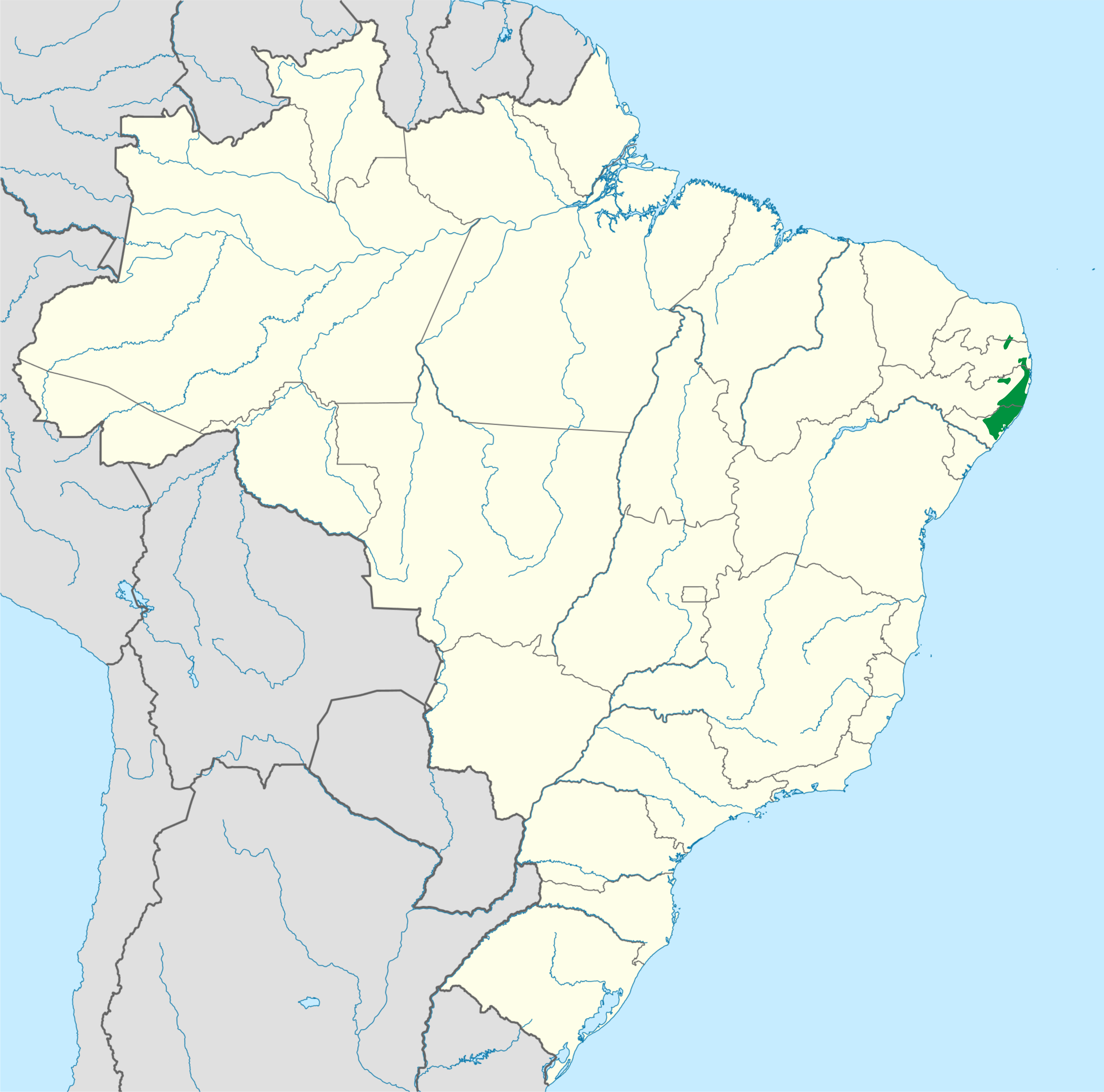 Approximate area of the Pernambuco coastal forests ecoregion — of the Atlantic Forest biome. As delineated by WWF.